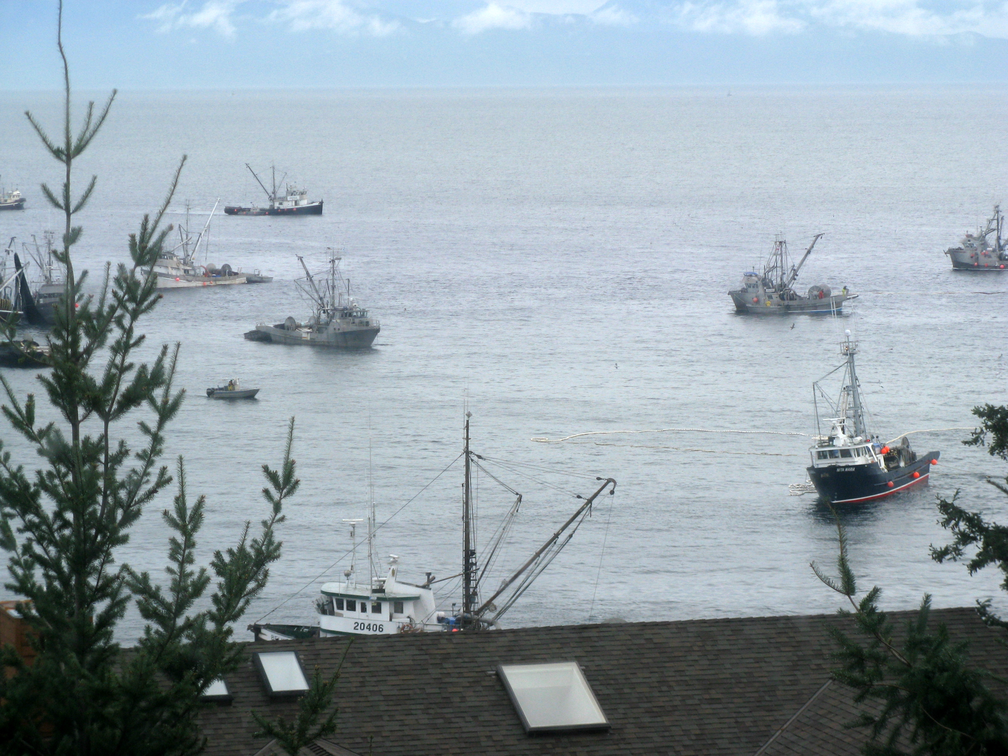 Maybe we can pillage the ocean forever without affecting its ecology. After all, we have experts managing it. (Experts also managed the Atlantic cod fishery, by the way). A few sea lions could occasionally be seen. I'll go out on a limb and suggest that they were not welcome. No doubt it was the herring activity that also brought the orcas by last week. Two or three decades ago this scene would have included a few float planes with their Japanese passengers carrying suitcases full of money to buy up herring roe.